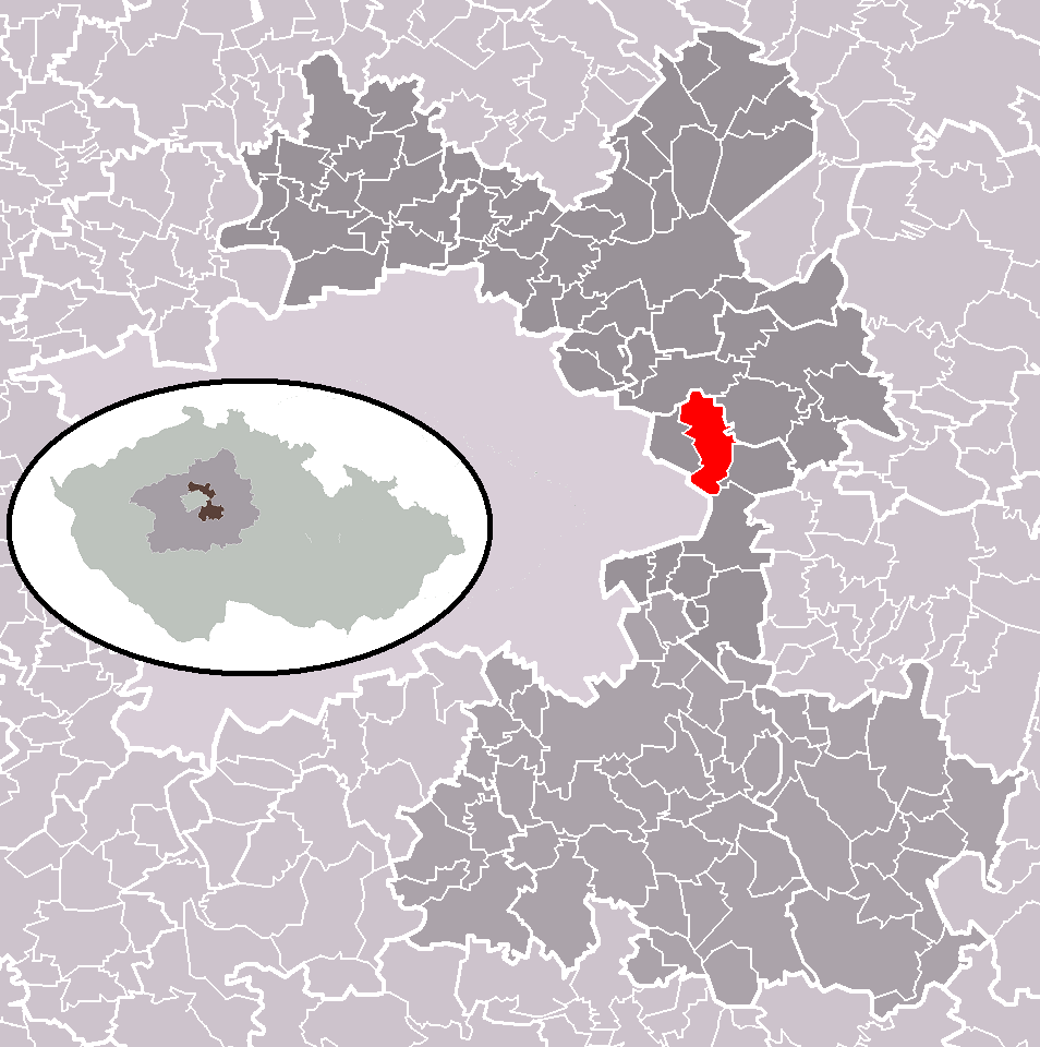 Location of Jirny municipality within Prague-East District and administrative area of Brandýs nad Labem-Stará Boleslav as a Municipality with Extended Competence.